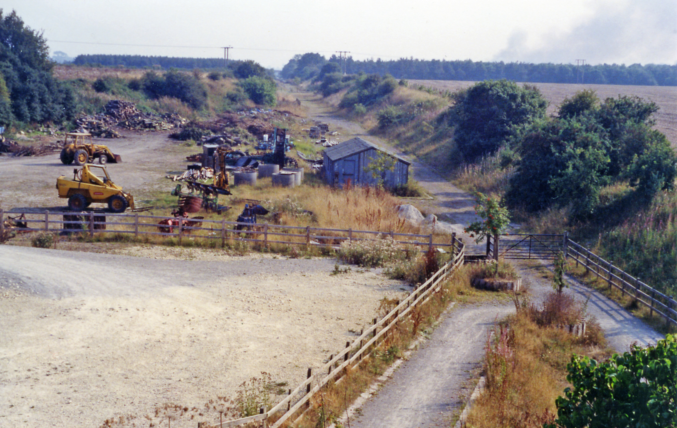 Site of Escrick station on former section through Selby of the East Coast Main Line, 1991. View southward, towards Selby, Doncaster and the South: ex-NER (Doncaster) - Shaftholme Junction - Selby - York - Darlington - Newcastle - Berwick) section of the ECML. To avoid speed restrictions due to new mining subsidences and the river swing-bridges at Selby and at Naburn, 16 miles of a new main line (the Selby Diversion) was built (opened October 1983) to the west of the old ECML, from Temple Hirst to Colton Junction (on the Leeds - York line). The old main line was abandoned between Barlby Junction (east of Selby) and Challoners Whin Junction near York, but Escrick station on this stretch had been closed earlier (passengers 8/6/53, goods 11/9/61).